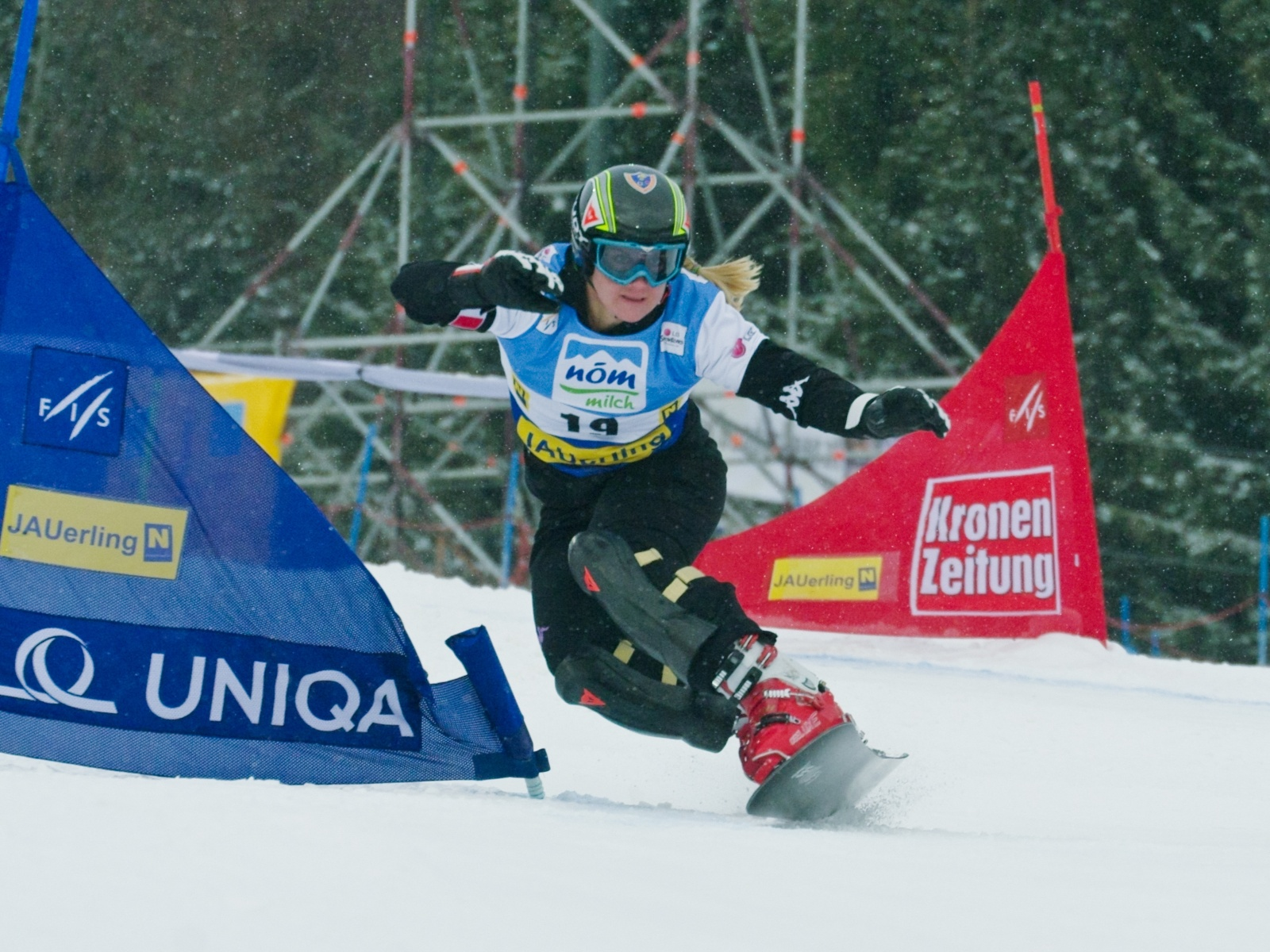 Italian snowboarder Corinna Boccacini in the qualification round of the World Cup Parallel Slalom at the Jauerling in Austria on 13 January 2012.